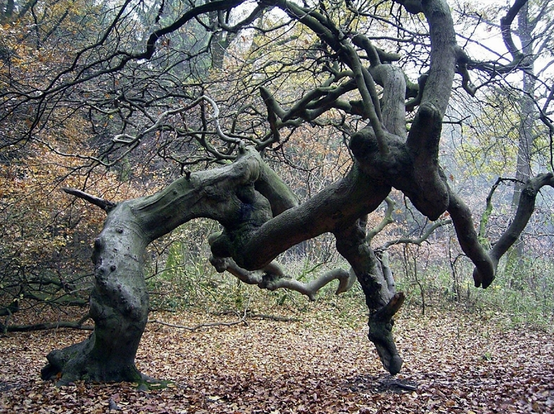 Dwarf beech (Fagus sylvatica 'Tortuosa') in the Suentel-Forest, Hülsede, Germany